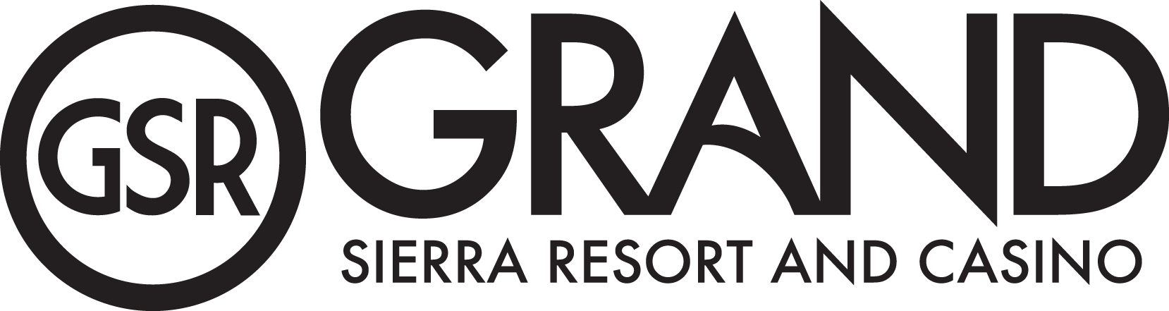 Grand Sierra Resort logo, in black